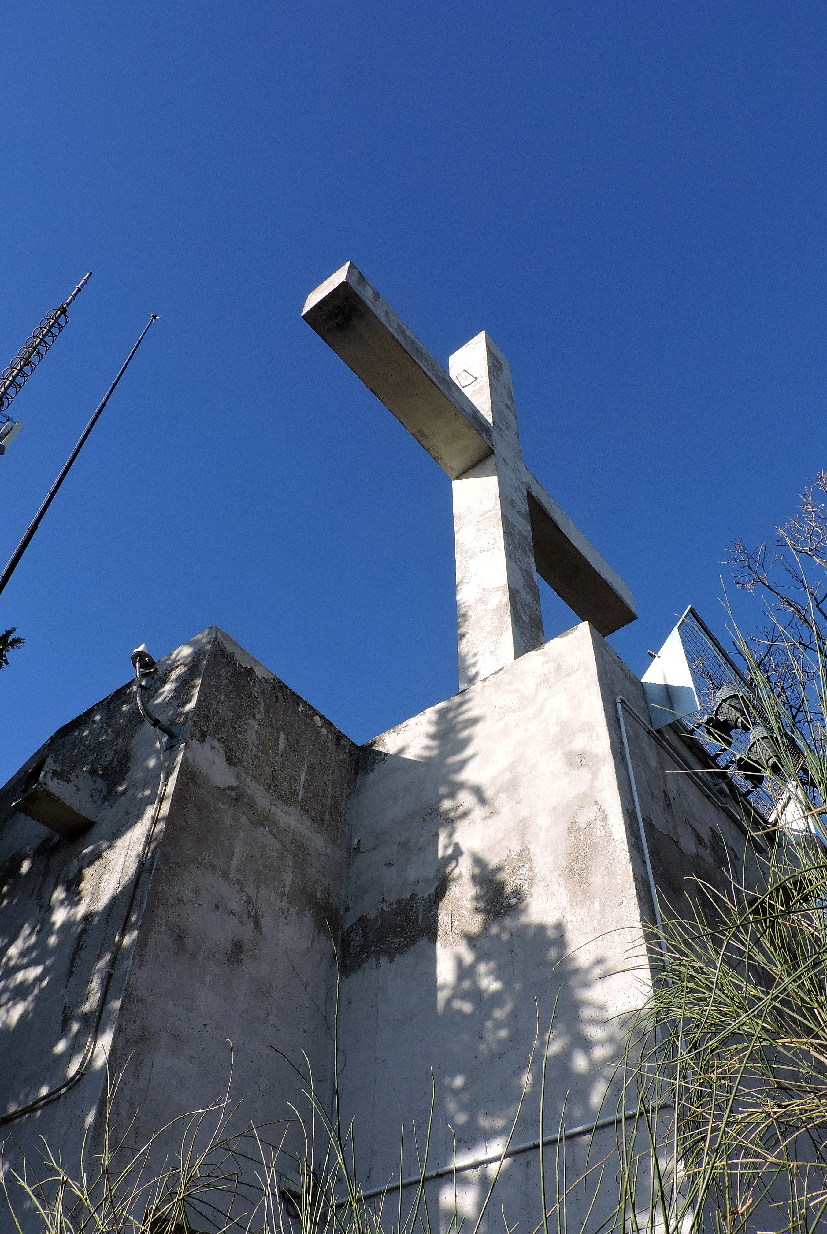 Monte di Rontana (RA, Italy): summit cross